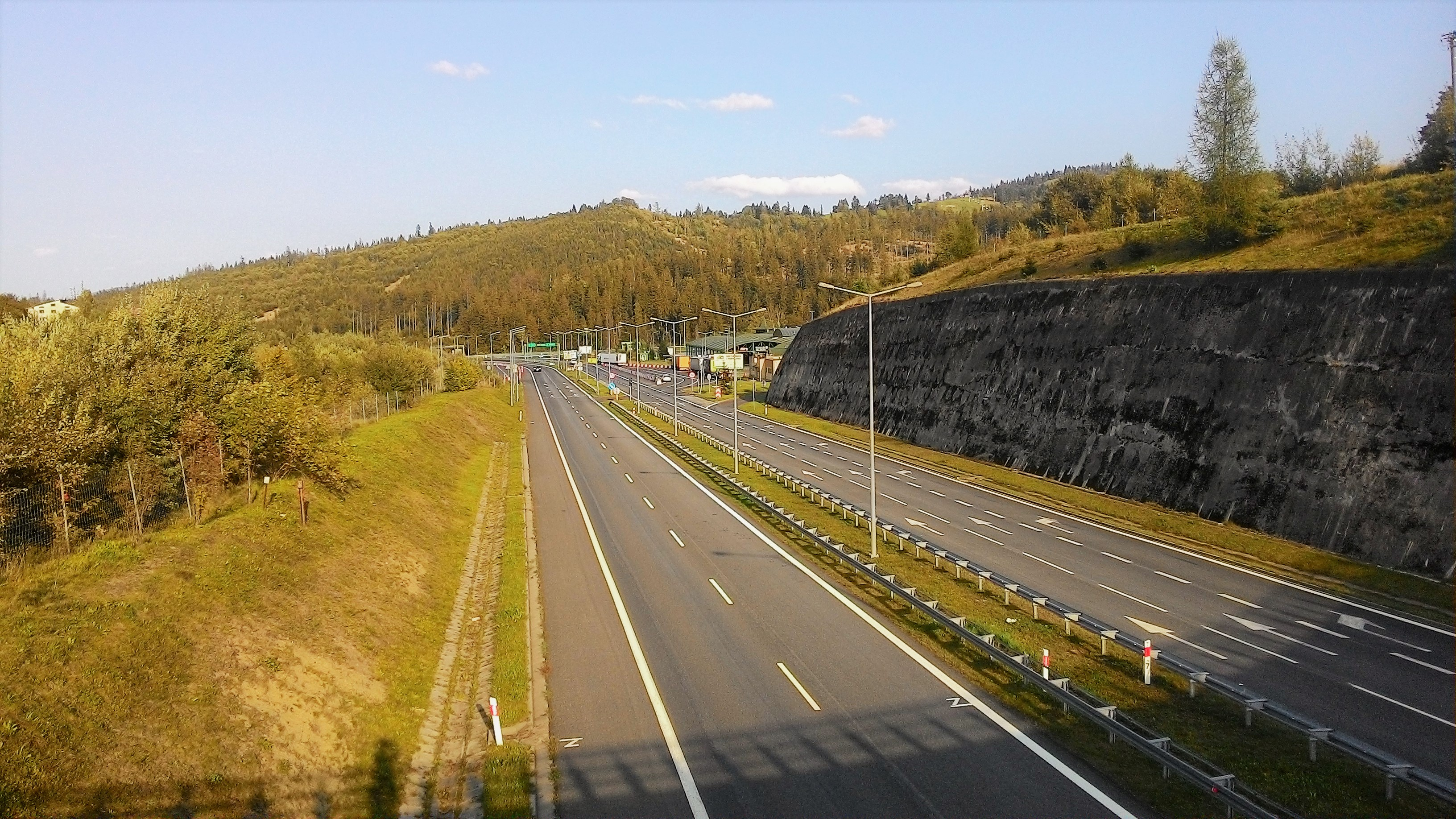 Expressway S1 and the former border crossing Zwardoń–Skalité.